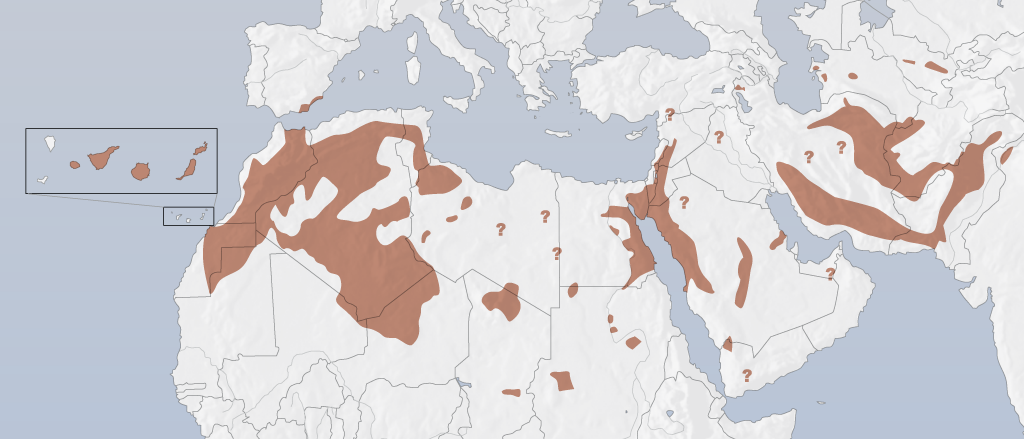 Distribution of the Trumpeter Finch Bucanetes githagineus